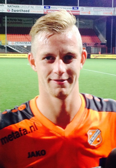 Kevin van Kippersluis after FC Volendam - Jong PSV